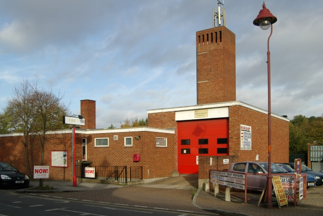 Radlett fire station Radlett fire station, 201 Watling Street, Radlett, Hertfordshire, shortly after its sudden closure on 23rd October 2006, despite a vigorous campaign by local people.